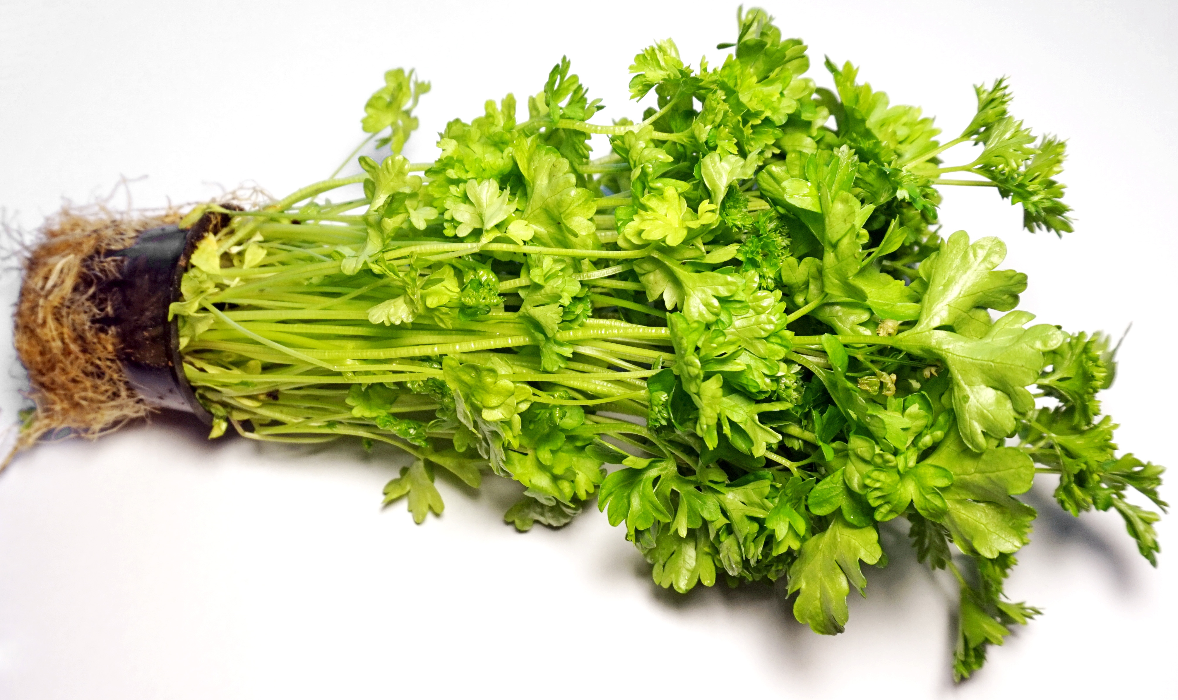 Parsley growing on a plastic pot.